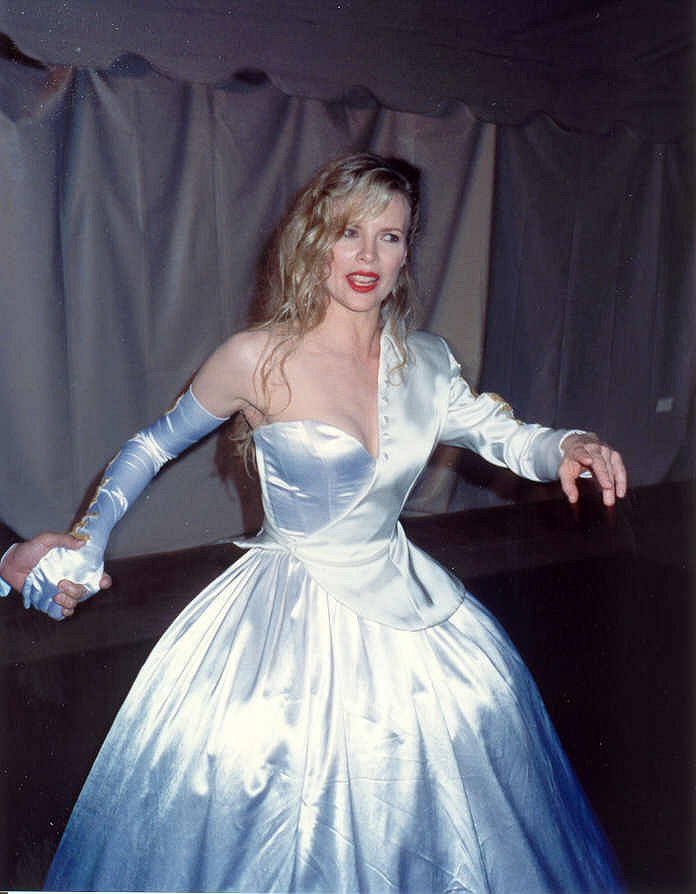 Photo taken at the 62nd Academy Awards 3/26/90